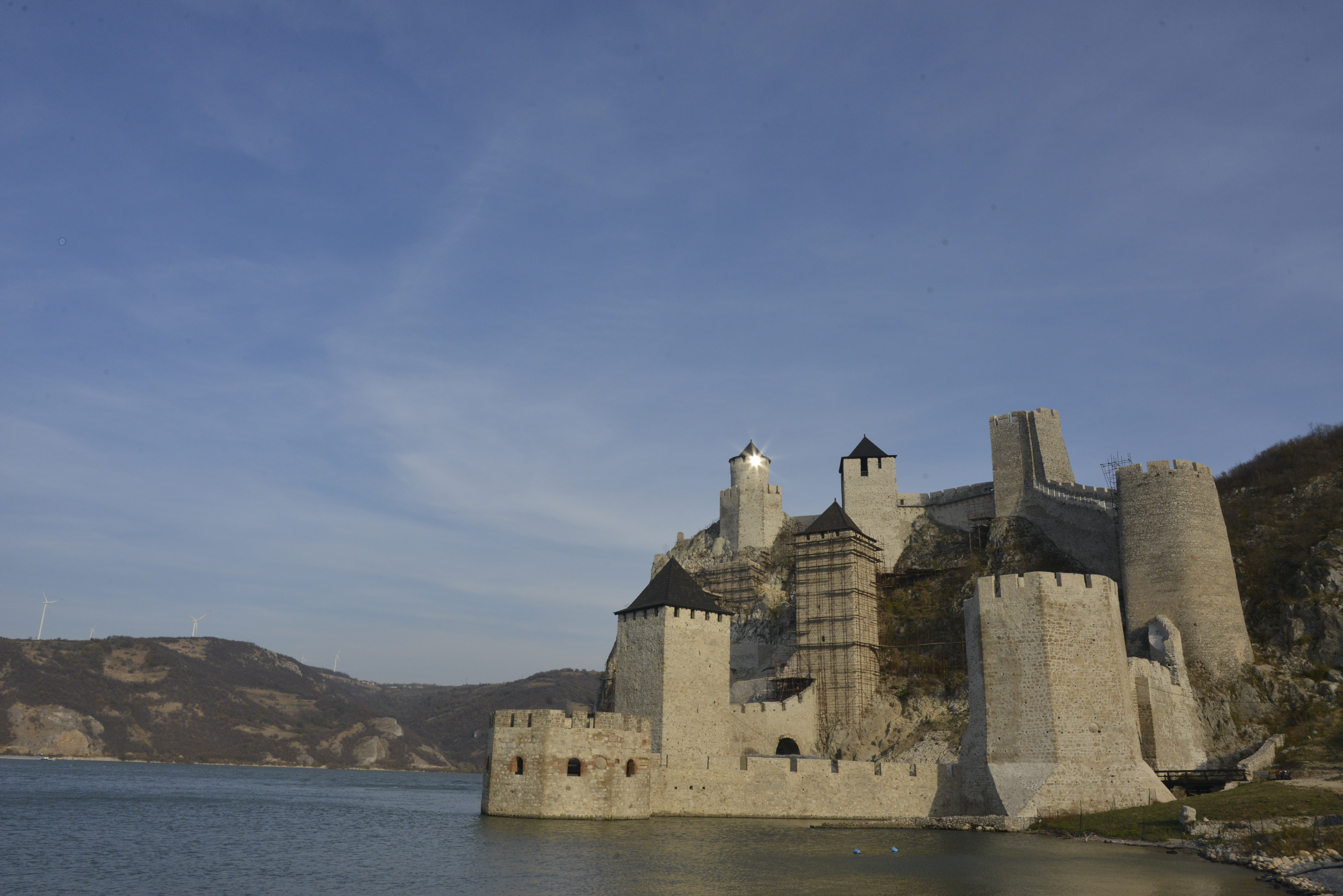 Fortress Golubac